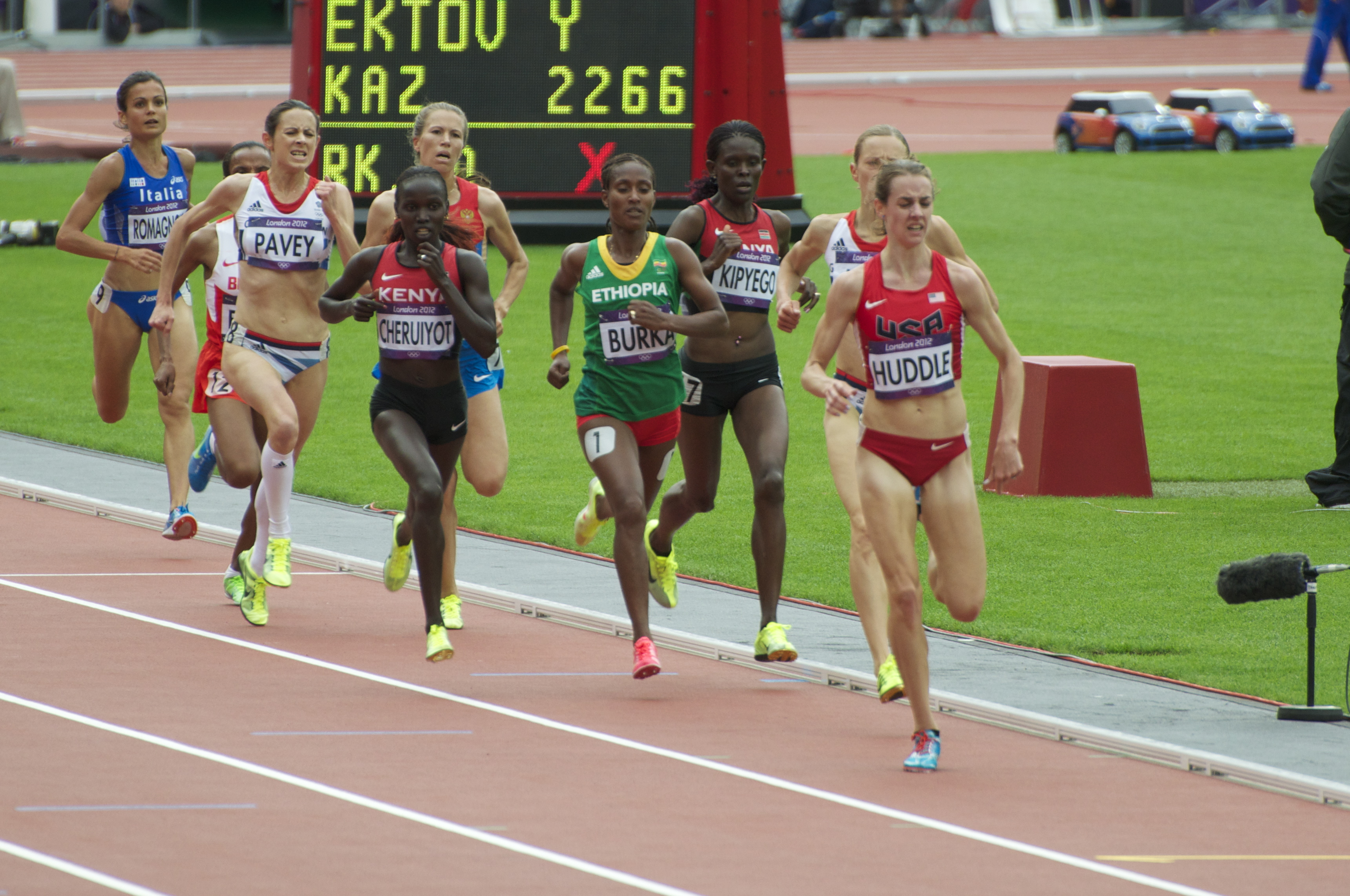 Women's 5000m round 1 heat 2, Elena Romagnolo (Italy), Joanne Pavey (Great Britain), Vivian Jepkemoi Cheruiyot (Kenya), Yelena Nagovitsyna (Russia), Gelete Burka (Ethiopia), Sally Jepkosgei Kipyego (Kenya), Molly Huddle (USA)